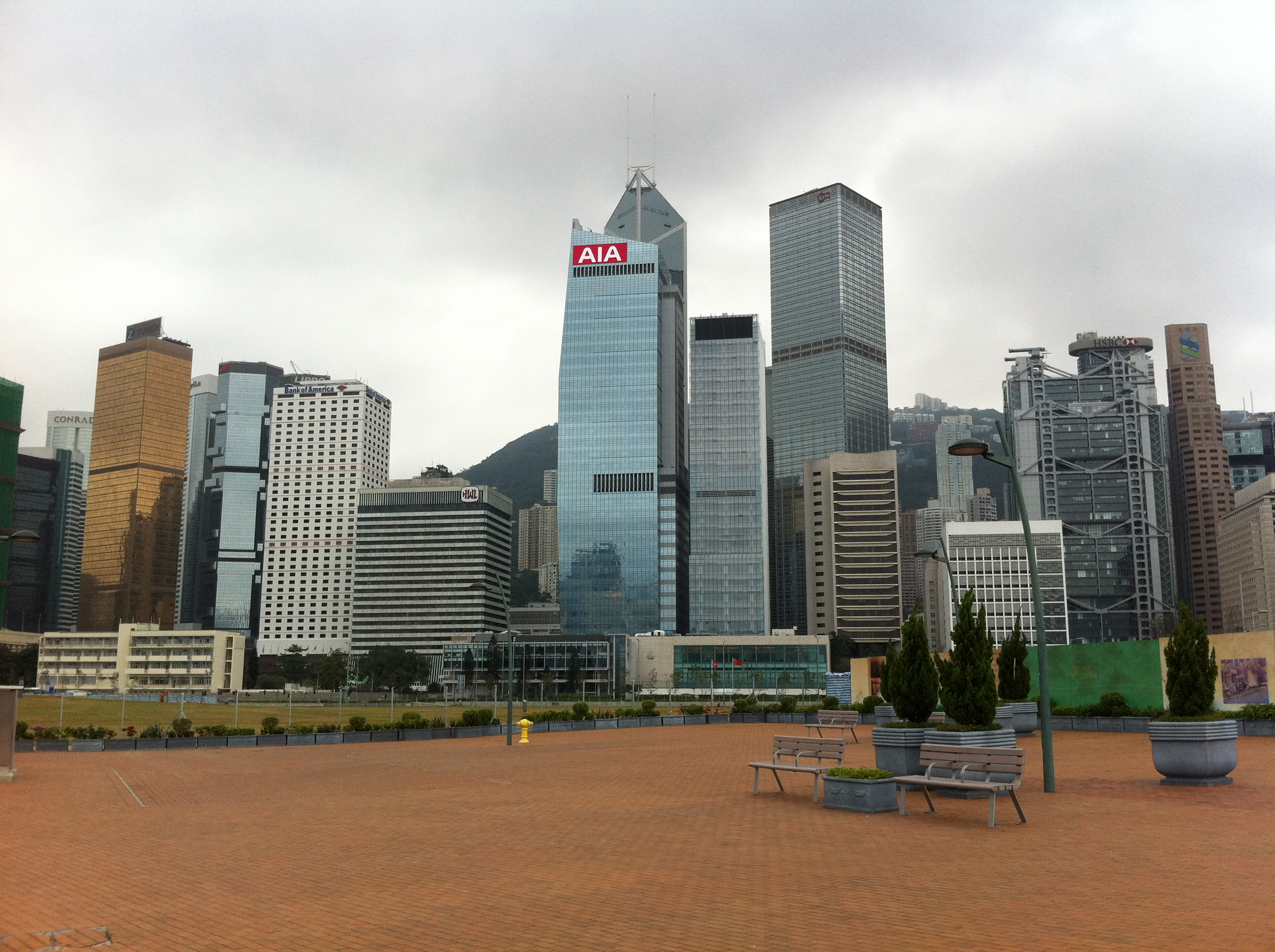 View from the Central to Admiralty Waterfront Promenade & public piers